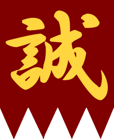 Flag of Shinsengumi